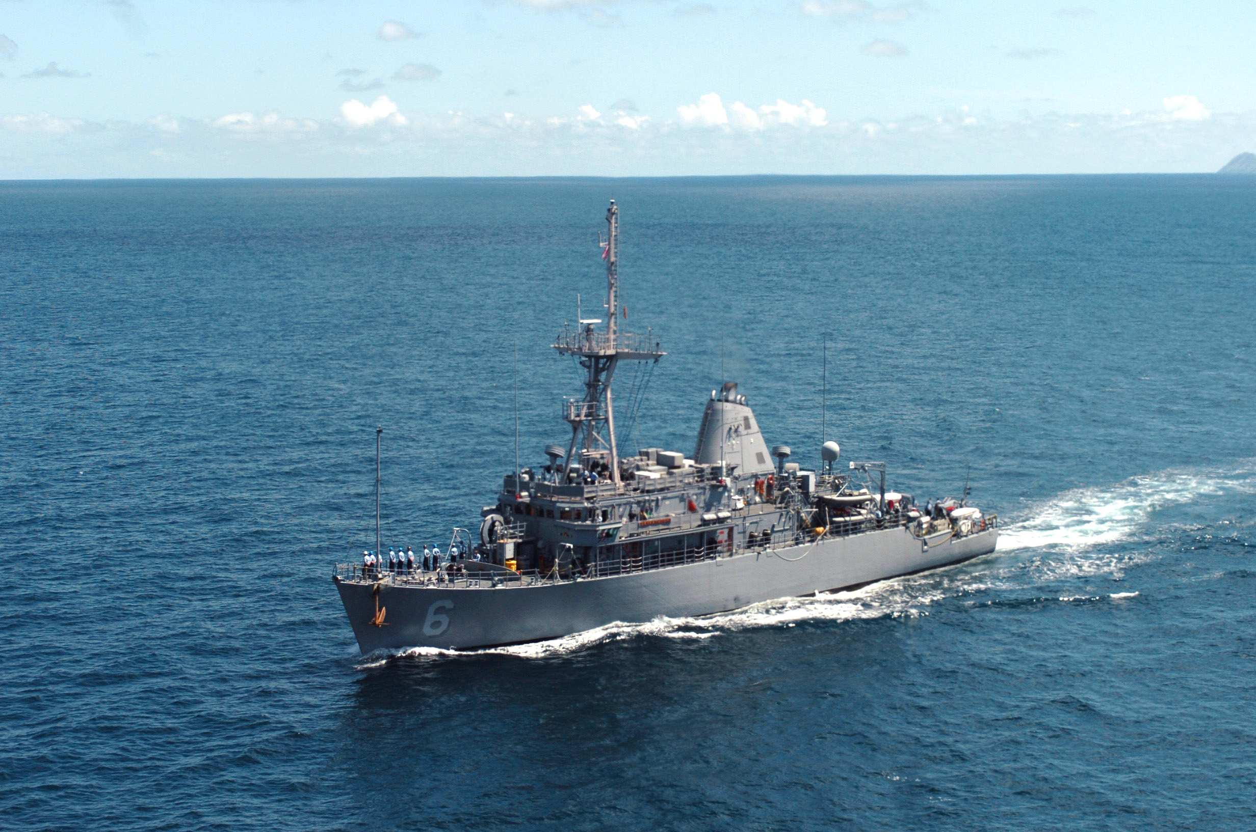 San Diego, Calf. (May 06, 2005) — The mine warfare countermeasure ship USS Devastator (MCM-6) participates in a maritime homeland security and defense exercise near the ports of Los Angeles and Long Beach, Calif., with the U.S. Coast Guard (USCG). The exercise named Lead Shield III / Roguex V, will feature significant participation from the community and will include 19 USCG and Navy commands, six ships, seven aircraft and 24 interagency organizations totaling approximately 1,200 personnel. The two main components of the exercise are Lead Shield, which exercises anti-mine warfare capabilities and Roguex, which exercises the ability to interdict and secure a rogue vessel.